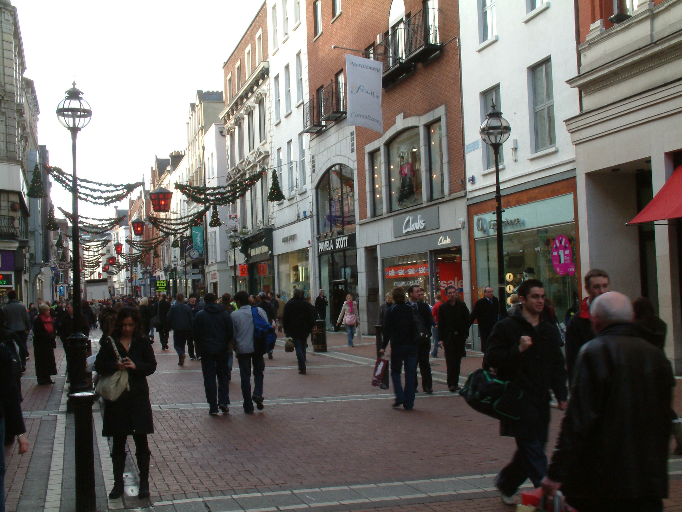 Mid-morning crowds on Grafton Street in Dublin, Ireland. You have shoulder room before the power shoppers arrive.